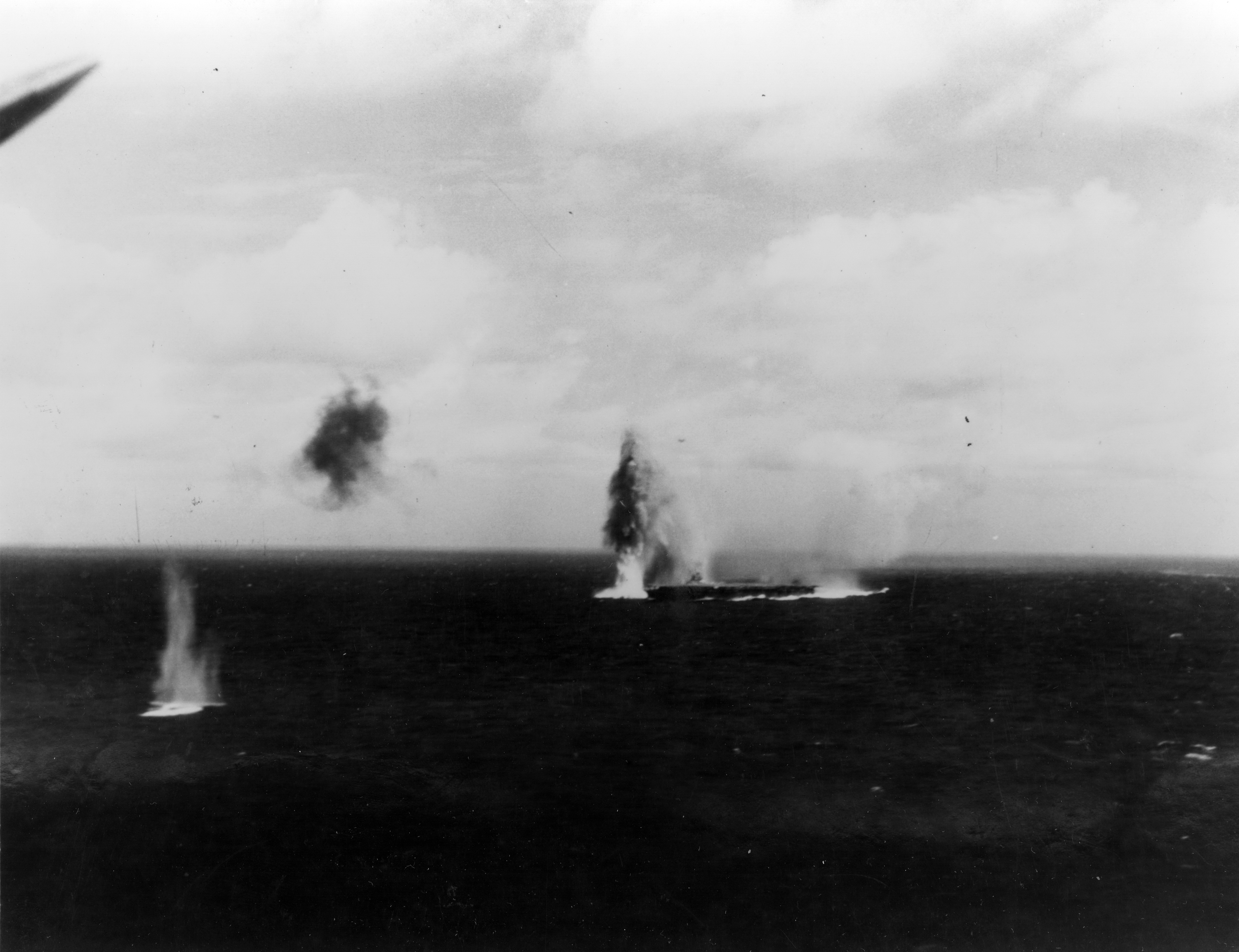 Bombs burst near the Japanese aircraft carrier Shokaku as she was attacked by USS Yorktown (CV-5) planes in the morning of 8 May 1942 during the Battle of the Coral Sea. Note the anti-aircraft shell burst in left center, with fragments splashing below and further left.